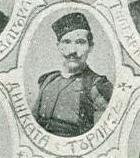 Portrait of IMARO member Dine Drobenov Dinkata from Tarlis